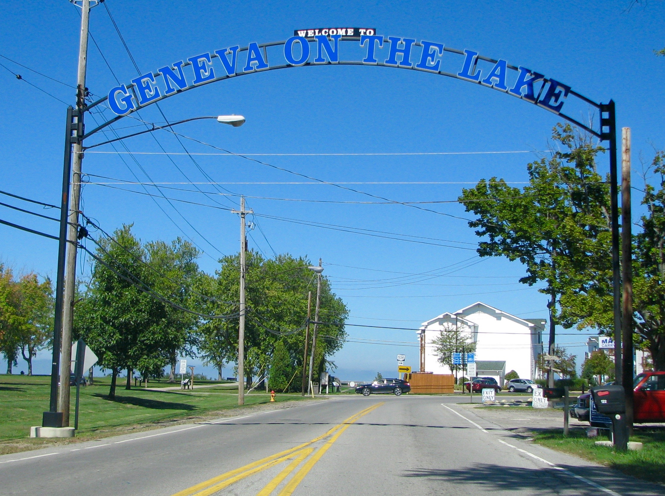 Welcome To Geneva On The Lake